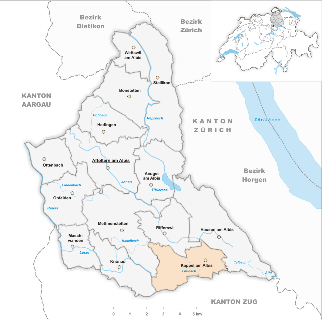 Municipality Kappel am Albis